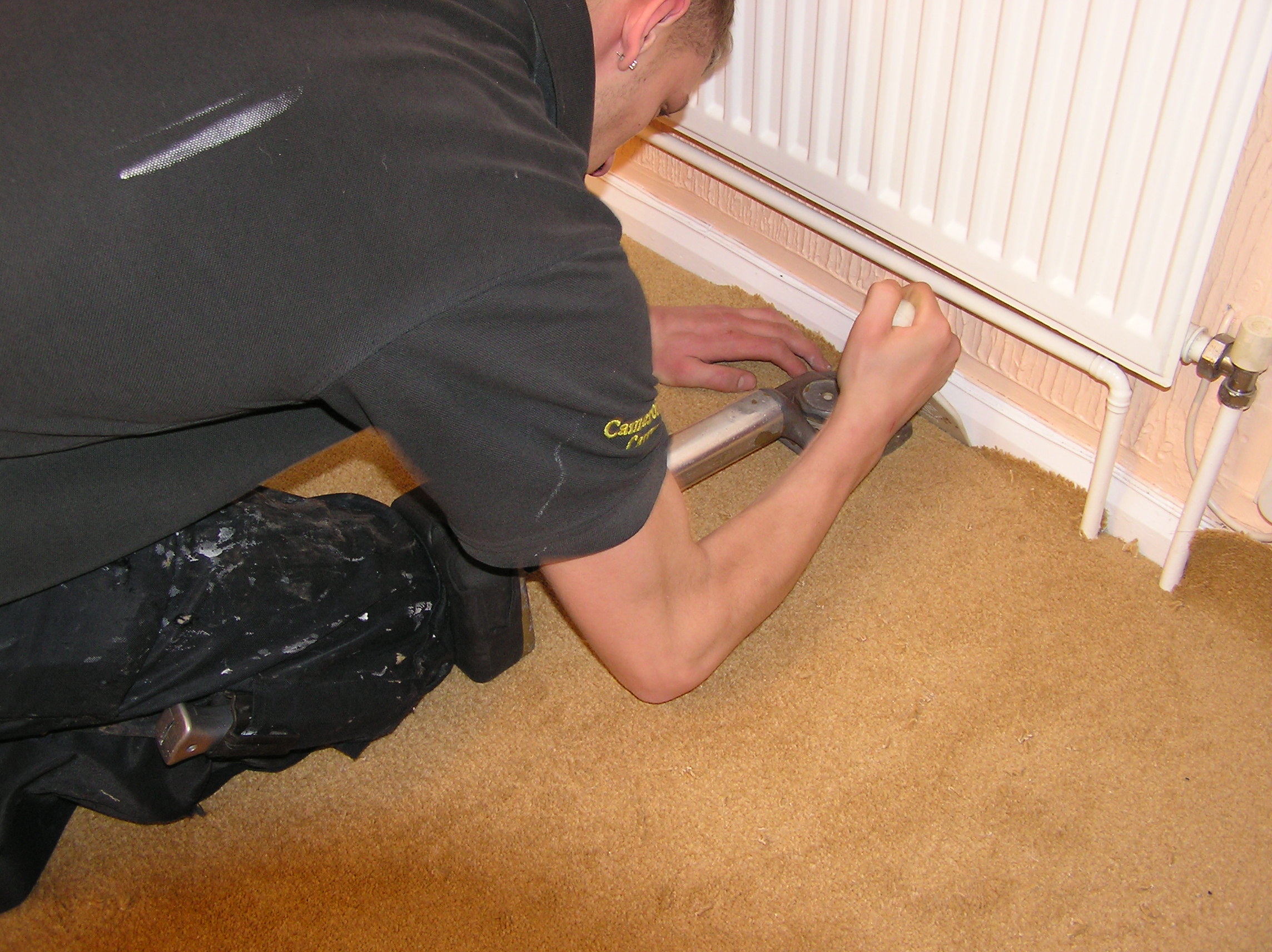 Laying a carpet at a house in Yate, South Gloucestershire, England. The fitter is ramming his knee (with great force) on the black padded end of the tool. Spikes (unseen in the photo), on the lower surface of the other end of the tool, grip the carpet. The carpet stretches onto the spikes sticking up (again unseen) on the gripper strip that has been nailed down around the periphery of the room. The fitter simultaneously pushes the carpet edge down into the channel behind the gripper, using the chisel-like tool in his right hand, to produce a perfect edge.